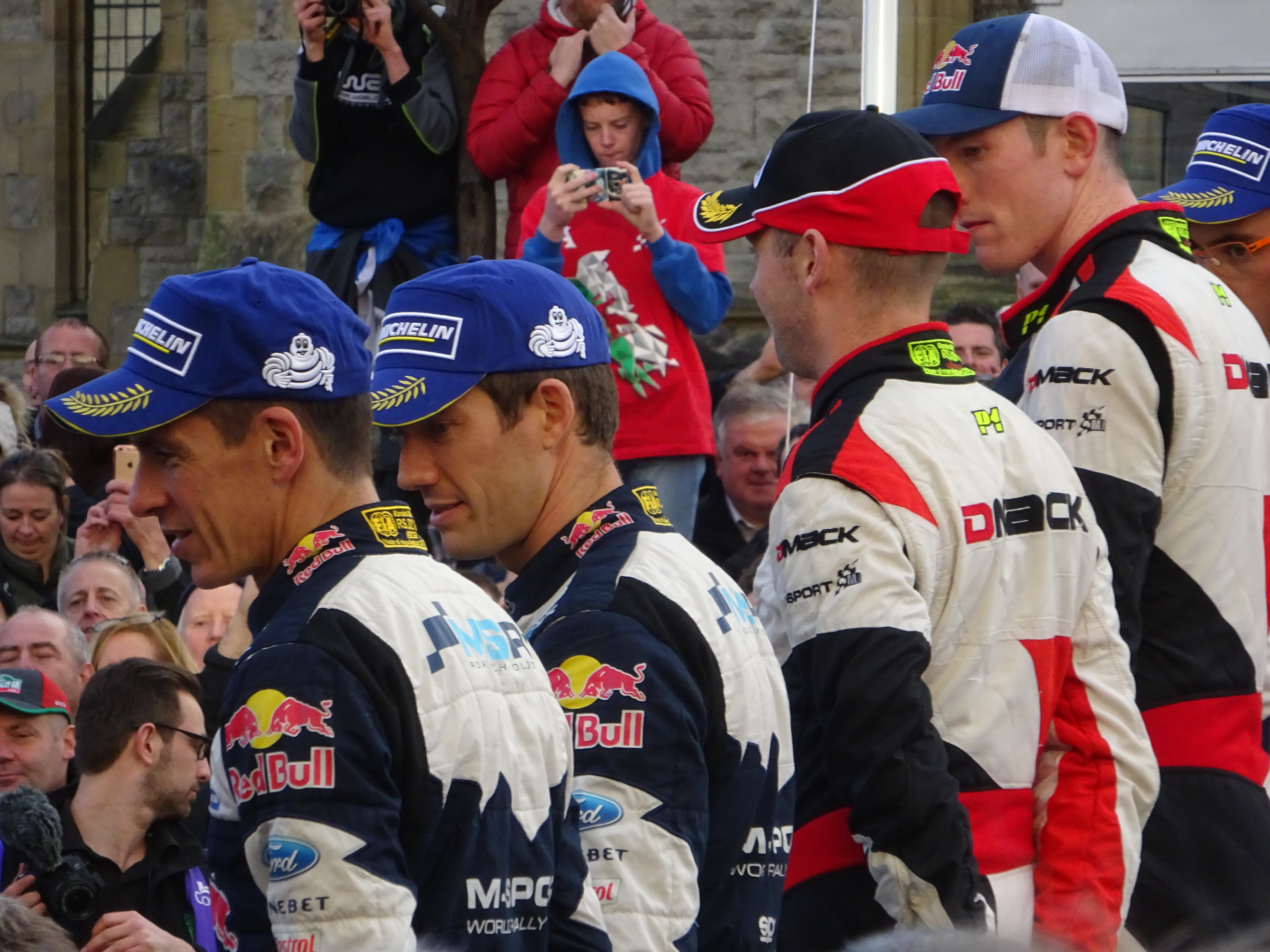 Elfyn Evans and runners up at the Awards ceremony. Winner of the Wales Rally GB - penultimate round of the globe-trotting World Rally Championship; Llandudno, Wales, 29 October 2017.